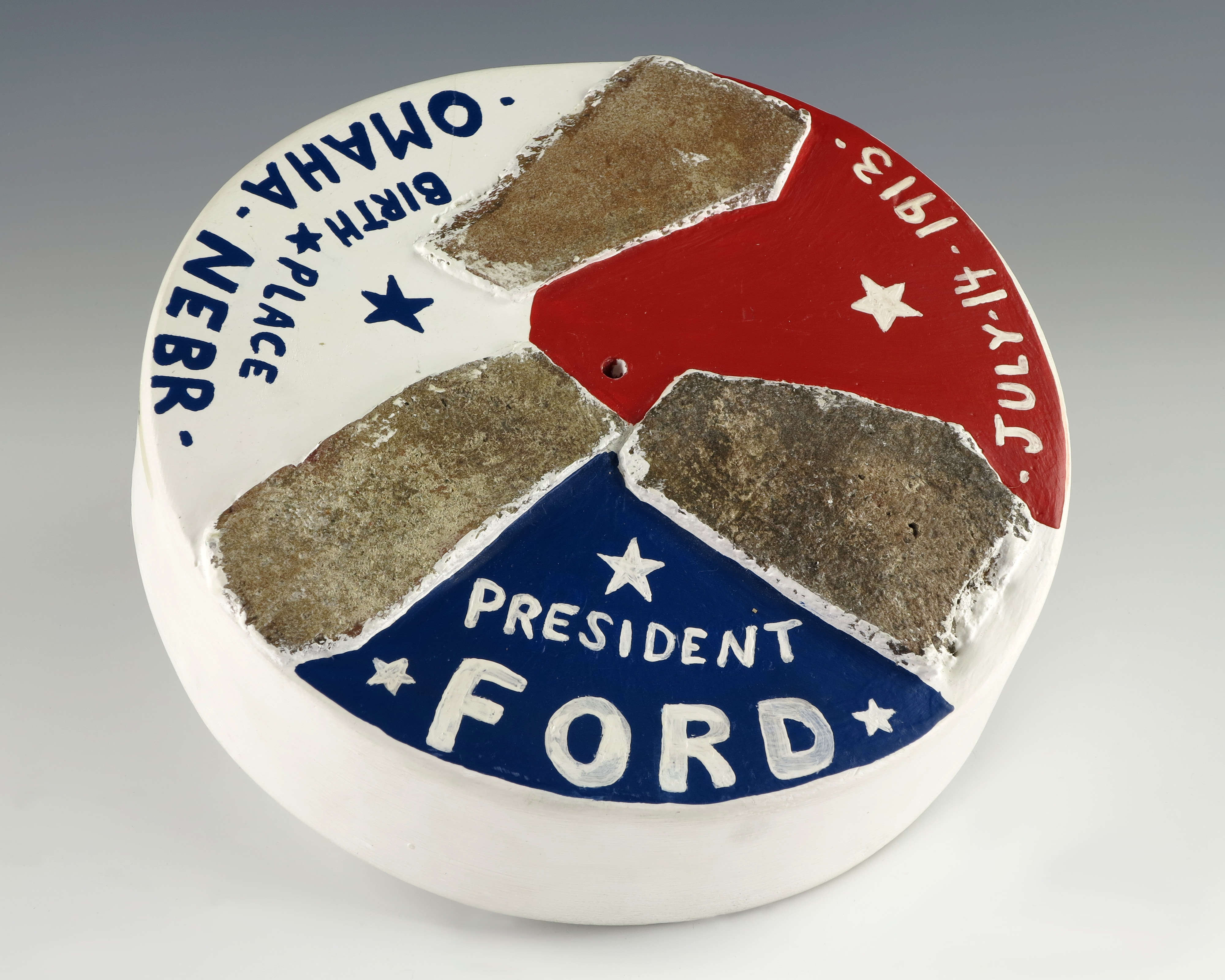 Plaster of Paris disc composed of three pieces of bricks from Gerald R. Ford's birthplace in Omaha, Nebraska. The plaster is painted red, white, and blue. Ford was born Leslie Lynch King, Jr., on July 14, 1913, in an ornate Victorian house at 3202 Woolworth Avenue.